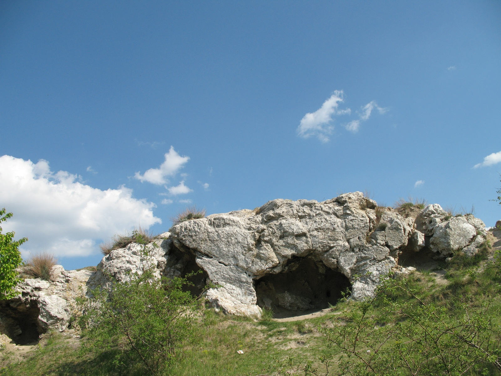 gypsum rocks on top of the nature reserve Schwellenburg, Germany, Thuringia